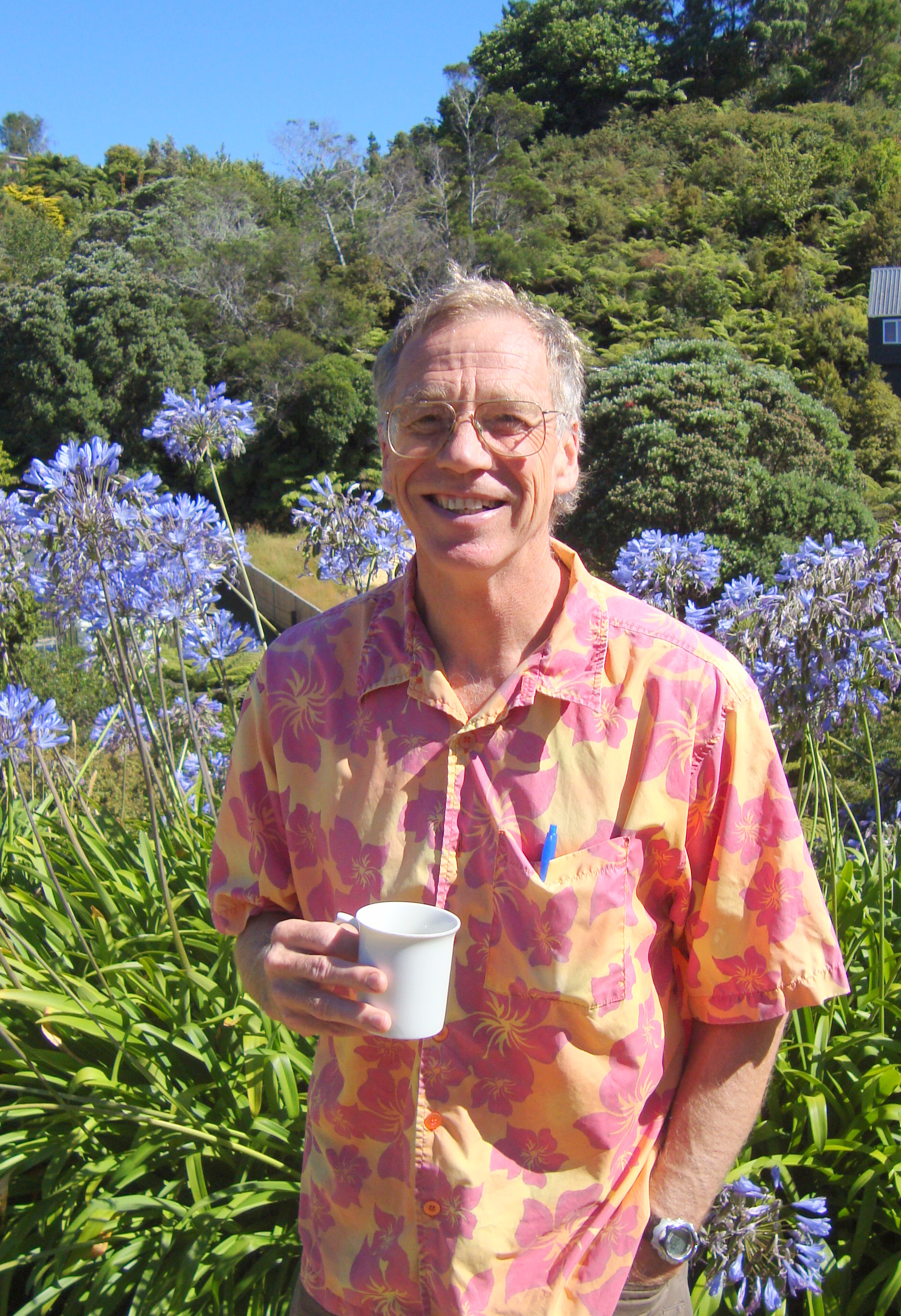 Mathematician Michael Freedman during the 2010 NZIMA Workshop on Topological Quantum Field Theory and Knot Homology Theory in Hahei, New Zealand.